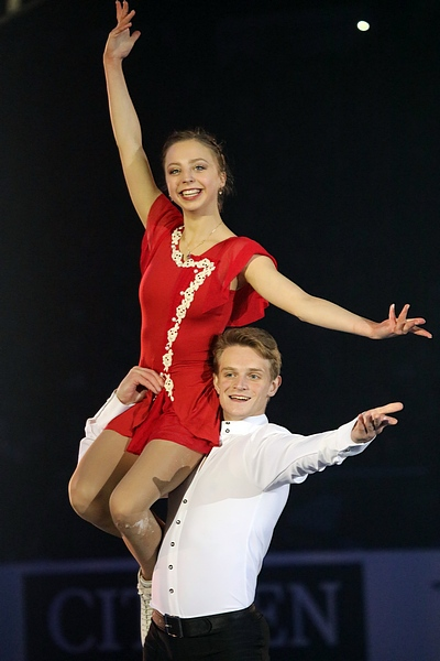 Aleksandra Boikova and Dmitrii Kozlovskii at the 2019 Skate Canada - Gala